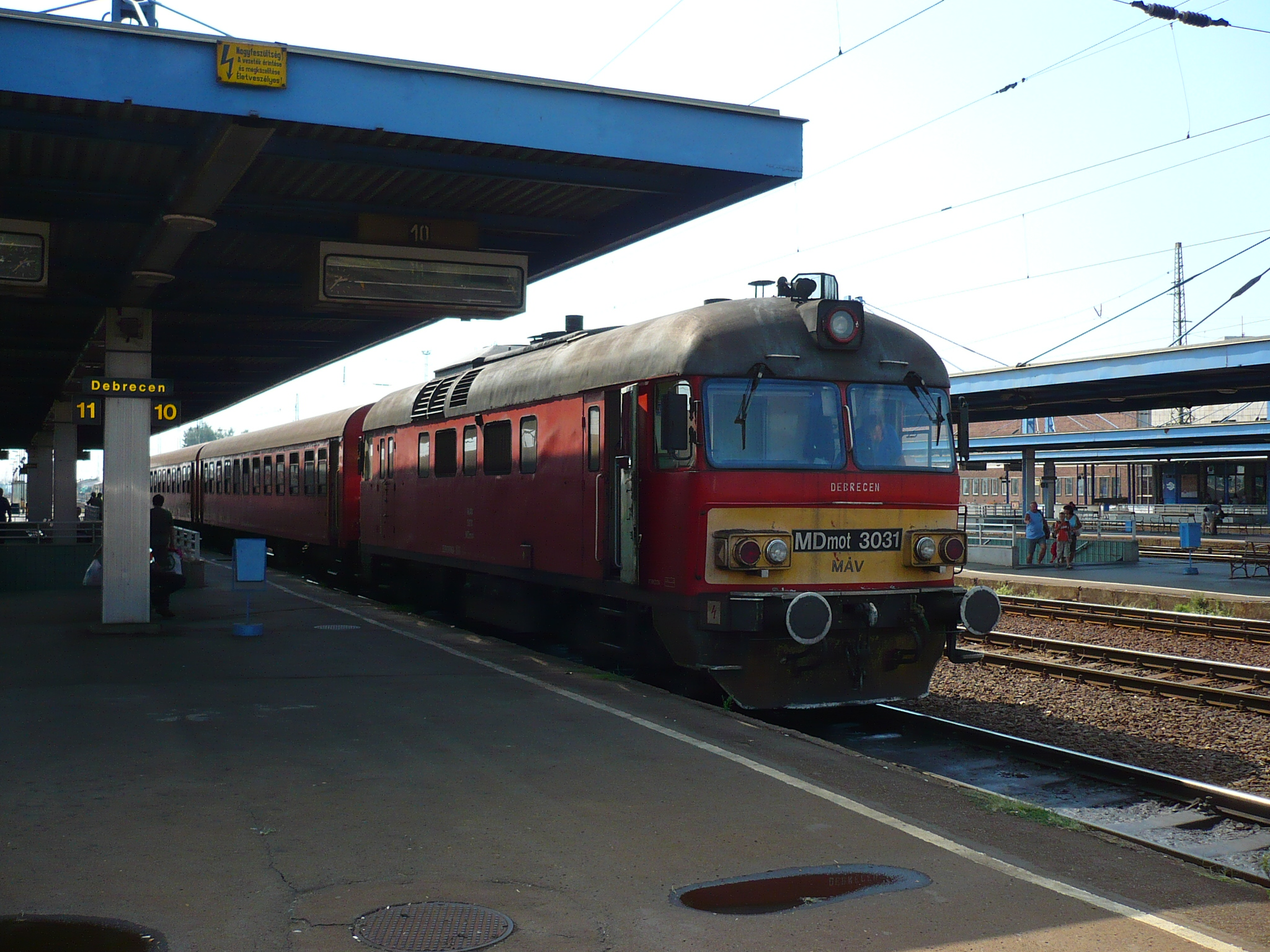 MDmot locomotive, Debrecen, Hungary